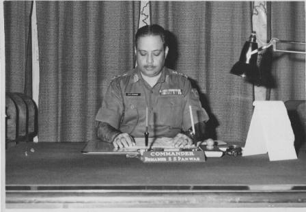 Surendra Singh Panwar, my own photograph.